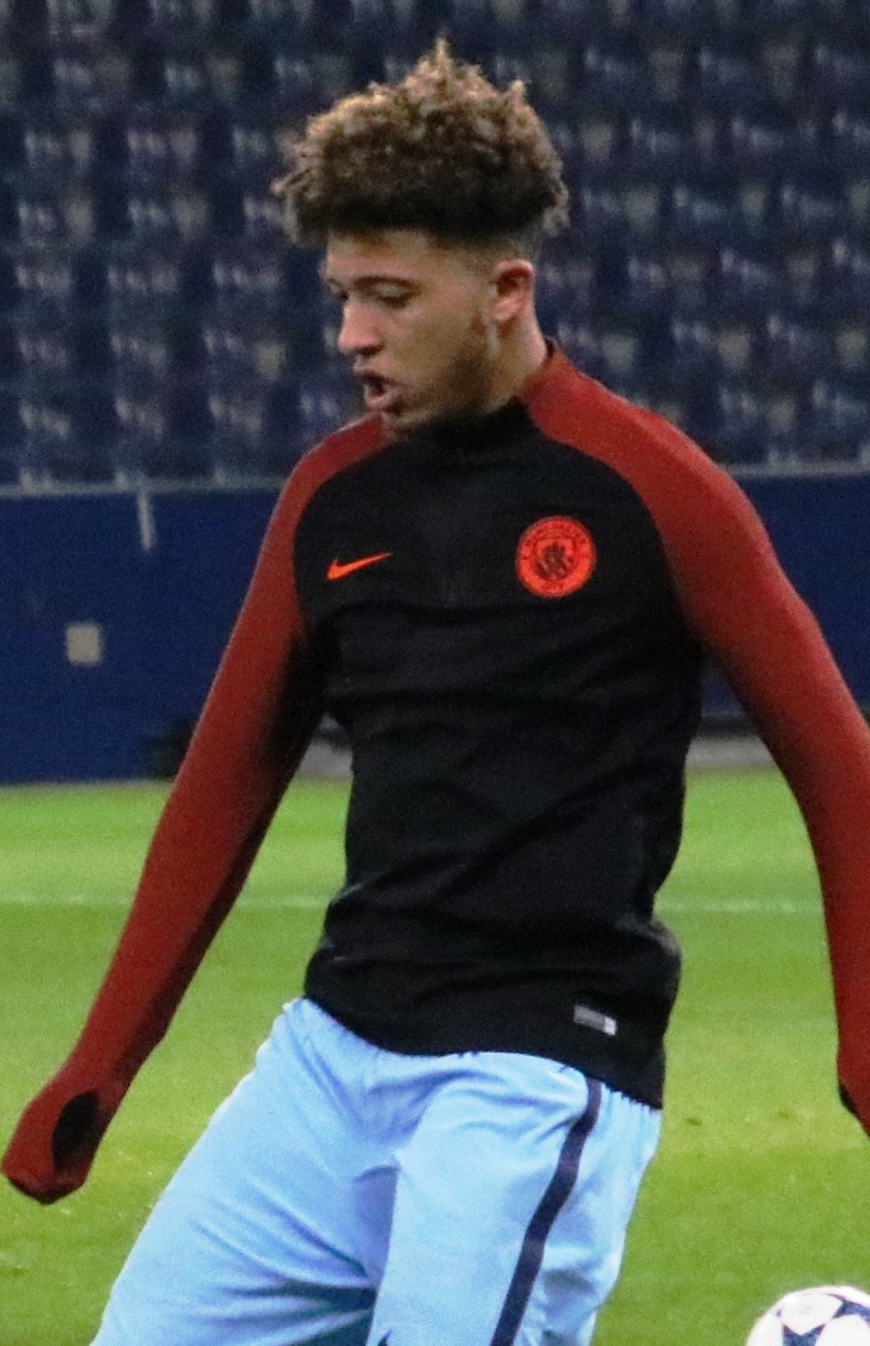 UEFA Youth League play off match. Jadon Sancho (right)